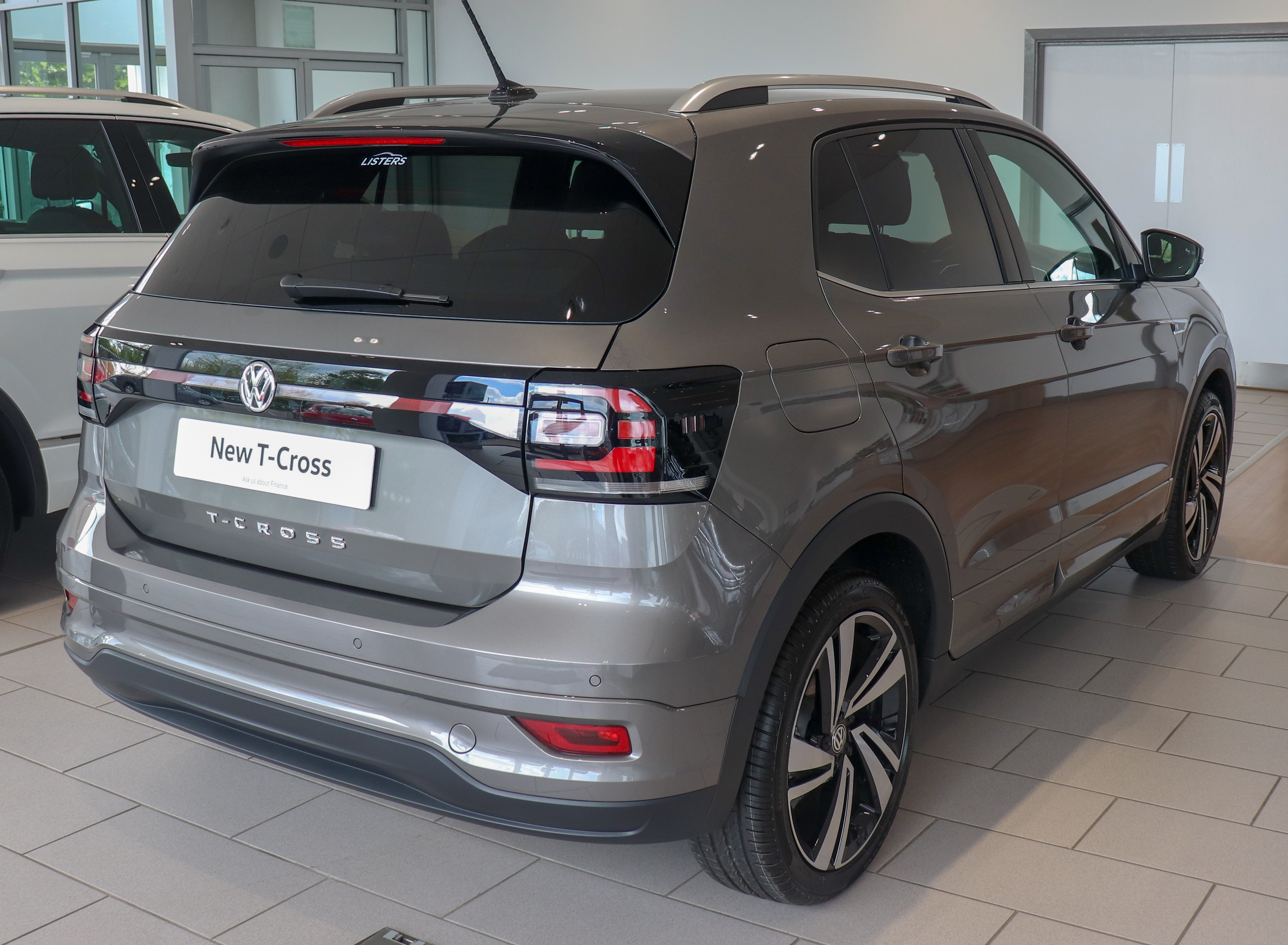 2019 Volkswagen T-Cross R-Line 1.0 Rear Taken in Leamington Spa